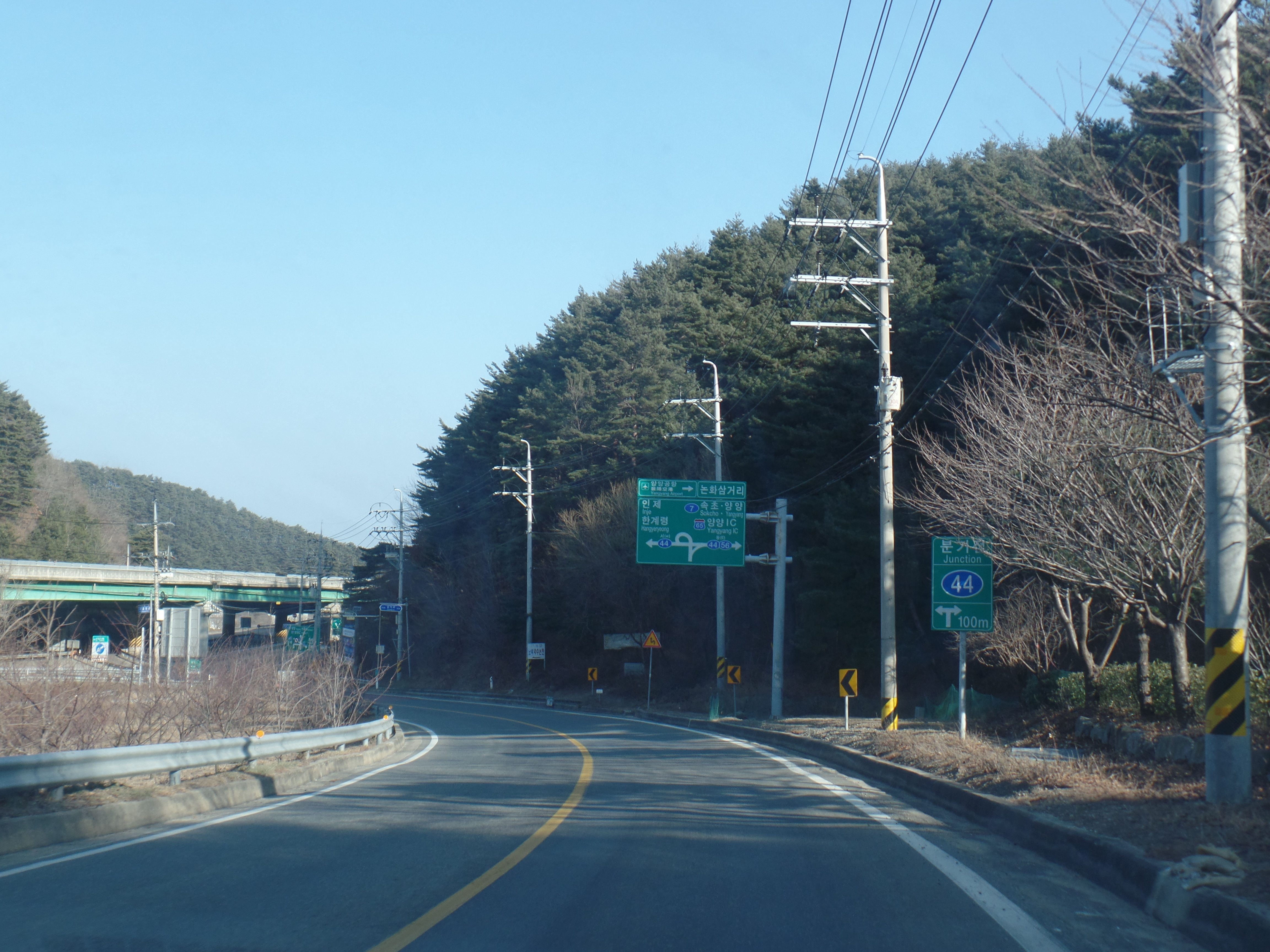 Republic of Korea Route 56 Nonhwa Tway Intersection(Eastward Direction)